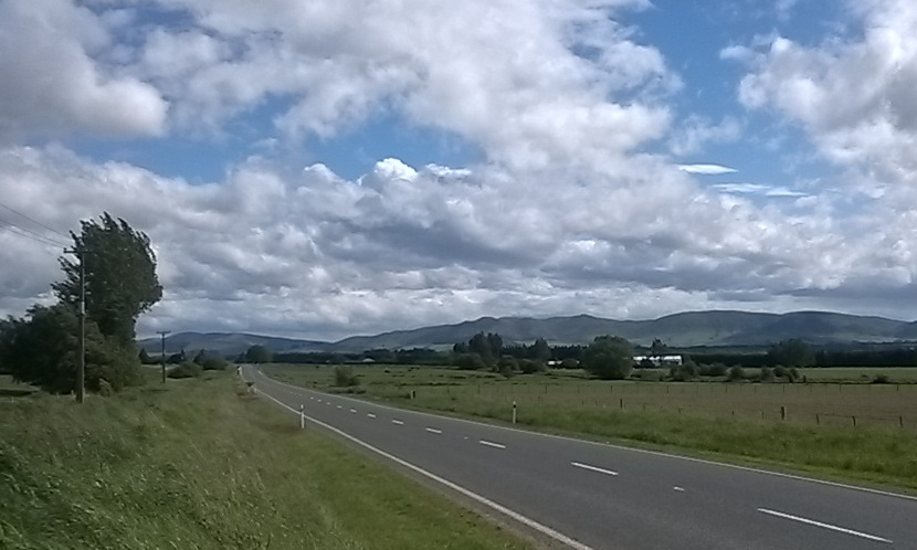 Lowther, New Zealand, in November 2015